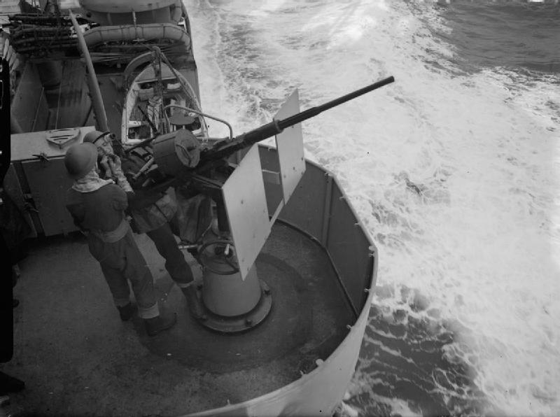 IWM caption : A 20 mm Oerlikon gunner on board HMS DIDO getting a light from a pal between bombing attacks in the eastern Mediterranean. FURTHER INFORMATION: The Oerlikon 20 mm cannon depicted here is on a Mark IIA Mounting. Original caption notes: Four cruisers and several destroyers left Alexandria to escort four merchantmen laden with troops, tanks, etc, to Malta. The weather was extremely bad at the beginning of the journey, and one destroyer, GHURKA, was torpedoed and sunk, and one merchantman was bombed and set on fire and had to be abandoned after the troops had been rescued from her. The rest of the convoy reached Malta safely.